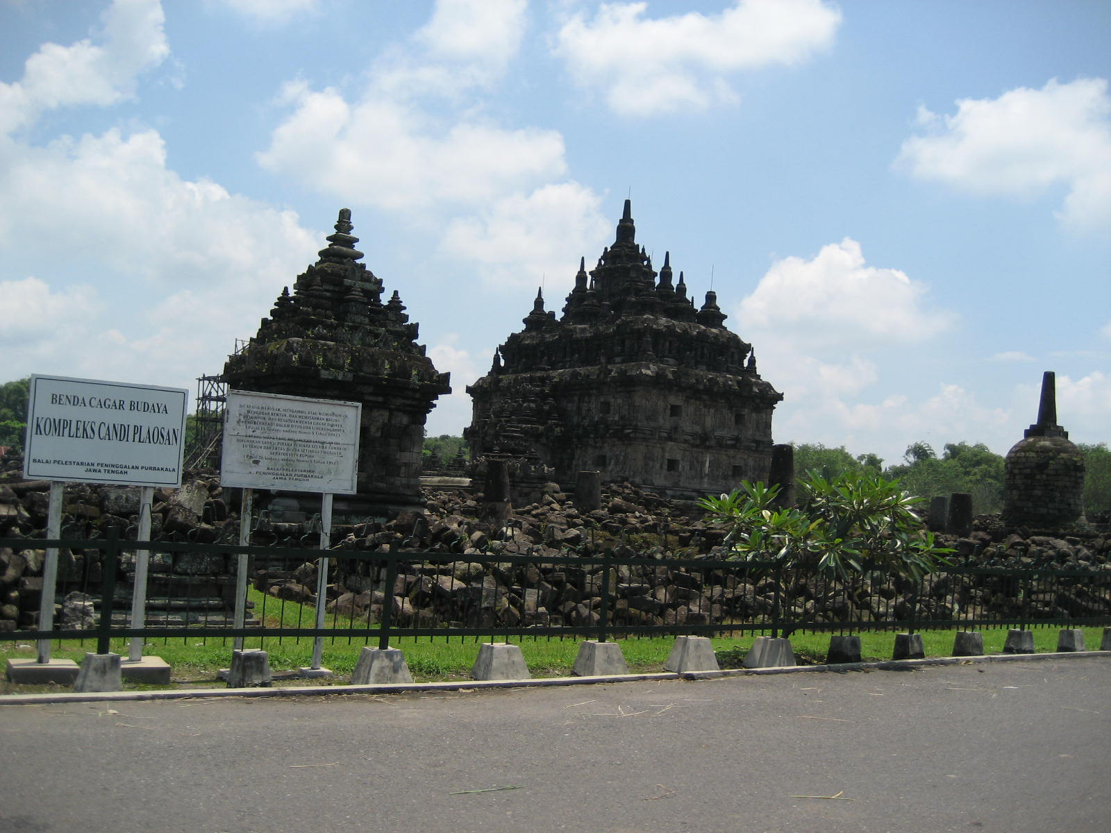 Plaosan Lor Temple in Central Java